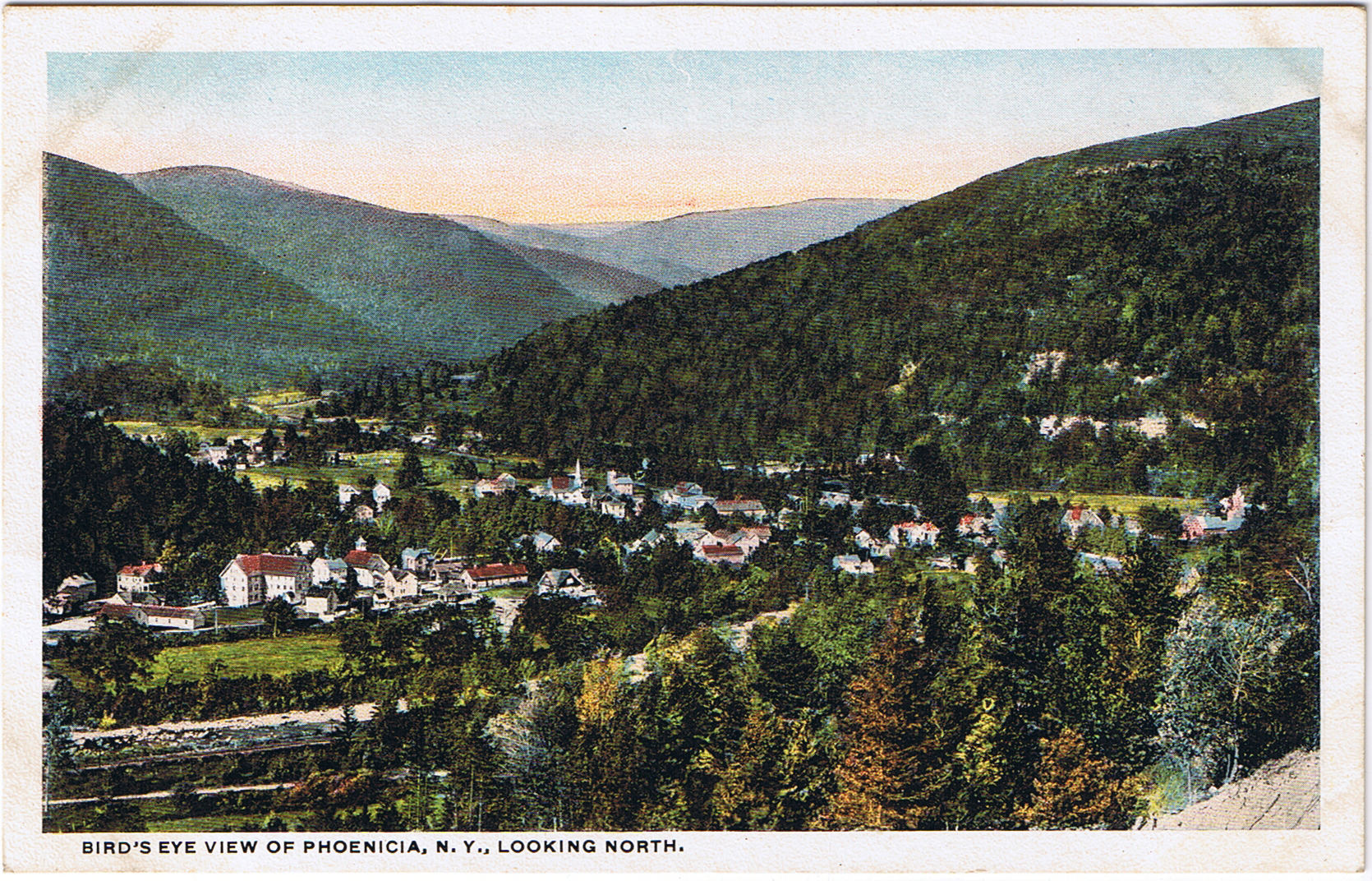 Matte color postcard entitled "Bird's Eye view of Phoenicia, N.Y., Looking North." Published by Hauser & Keen, Phoenicia, N. Y. Made in U.S.A. It bears the swastika of the Kingston Souvenir Co., Kingston, N.Y.